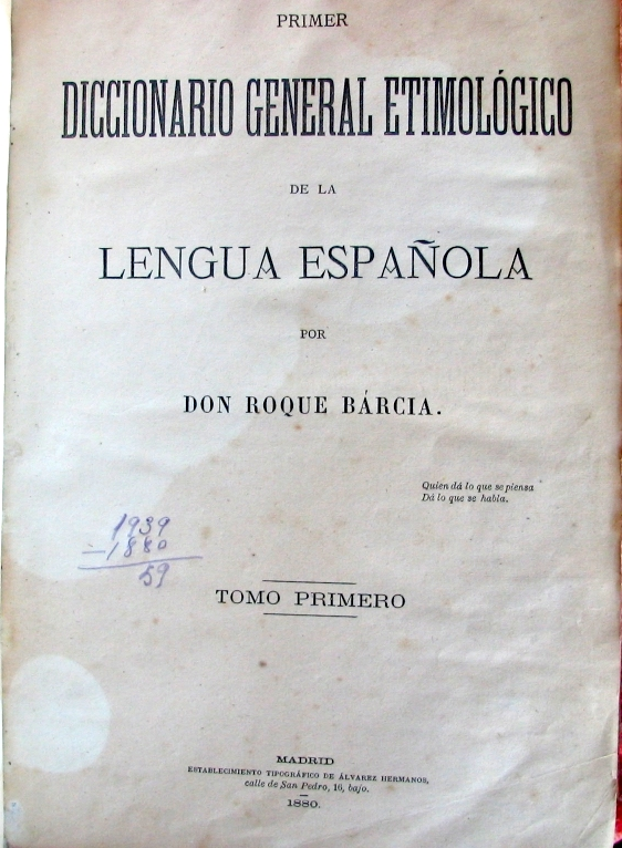 Frontpage of the first ethimologic dictionary in Spanish, by Roque Barcia, 1880